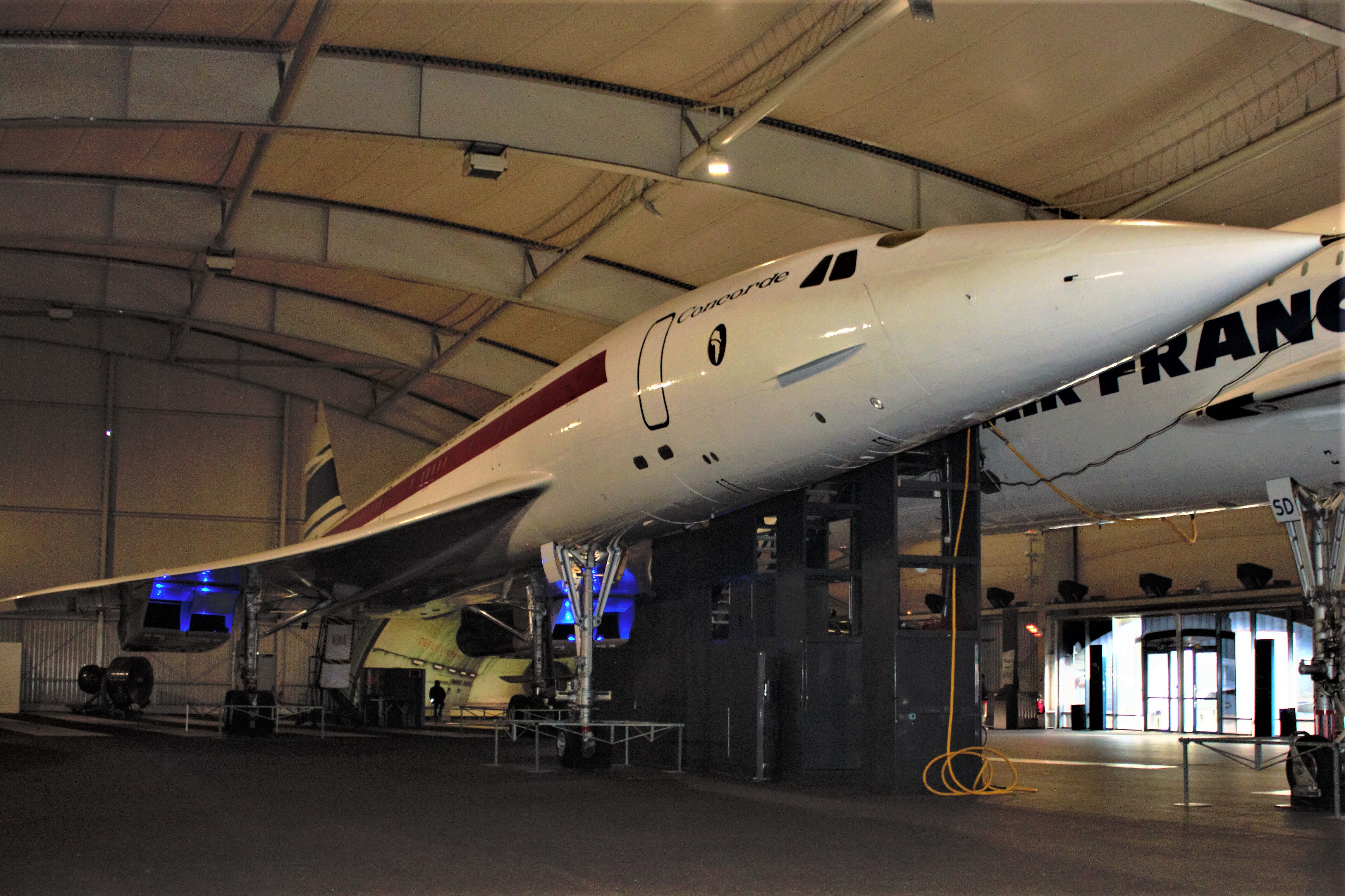 Concorde Prototype on display at the French Air And Space Museum in Le Bourget.